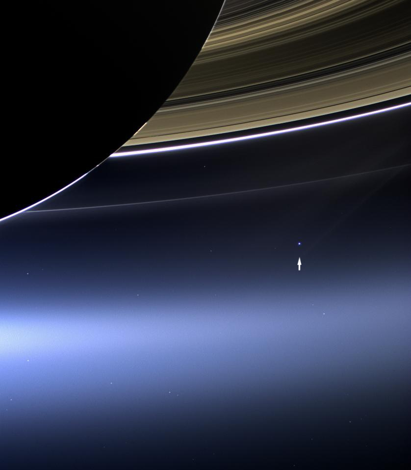 Earth seen from Cassini spacecraft